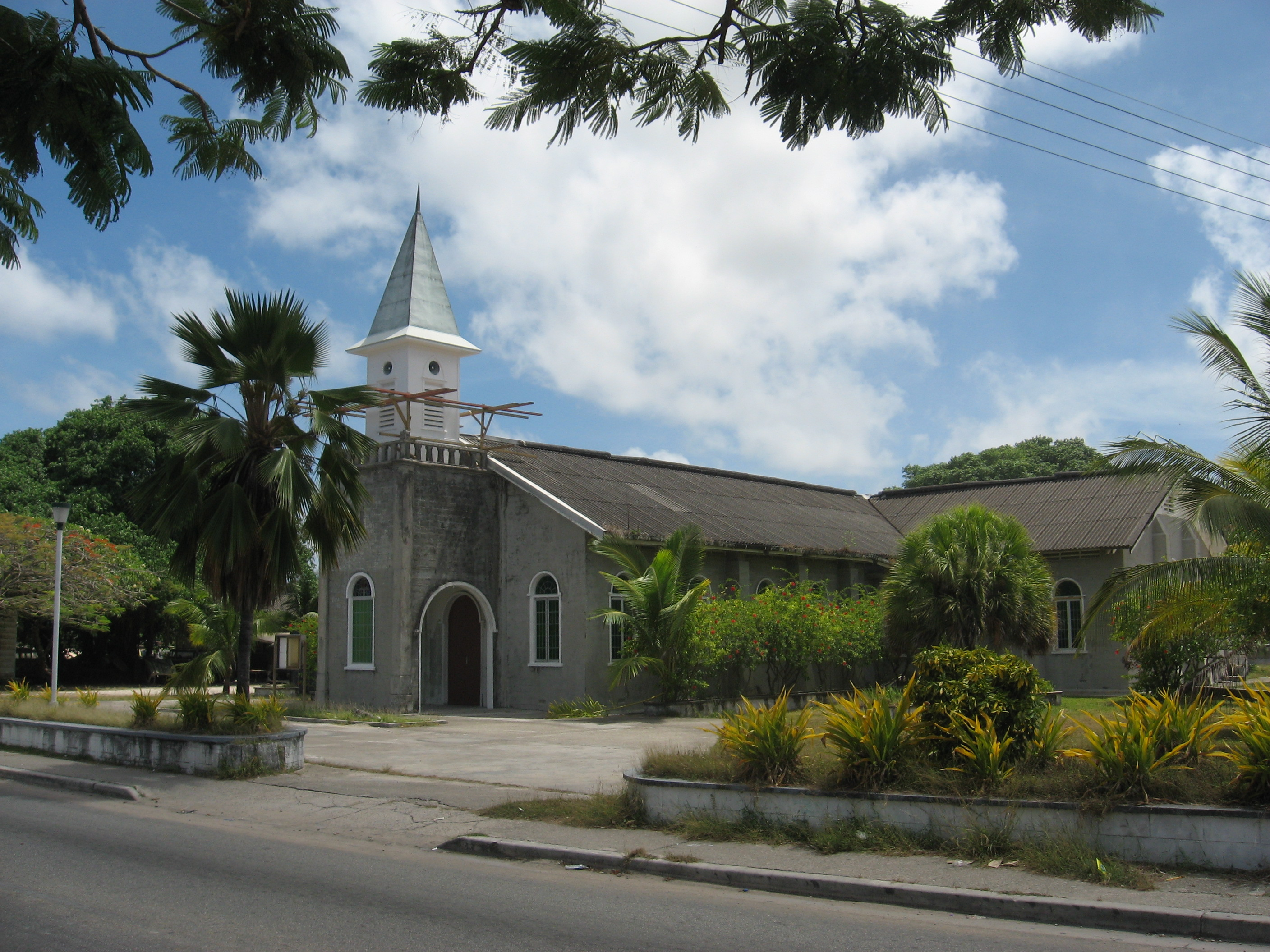 Nauru